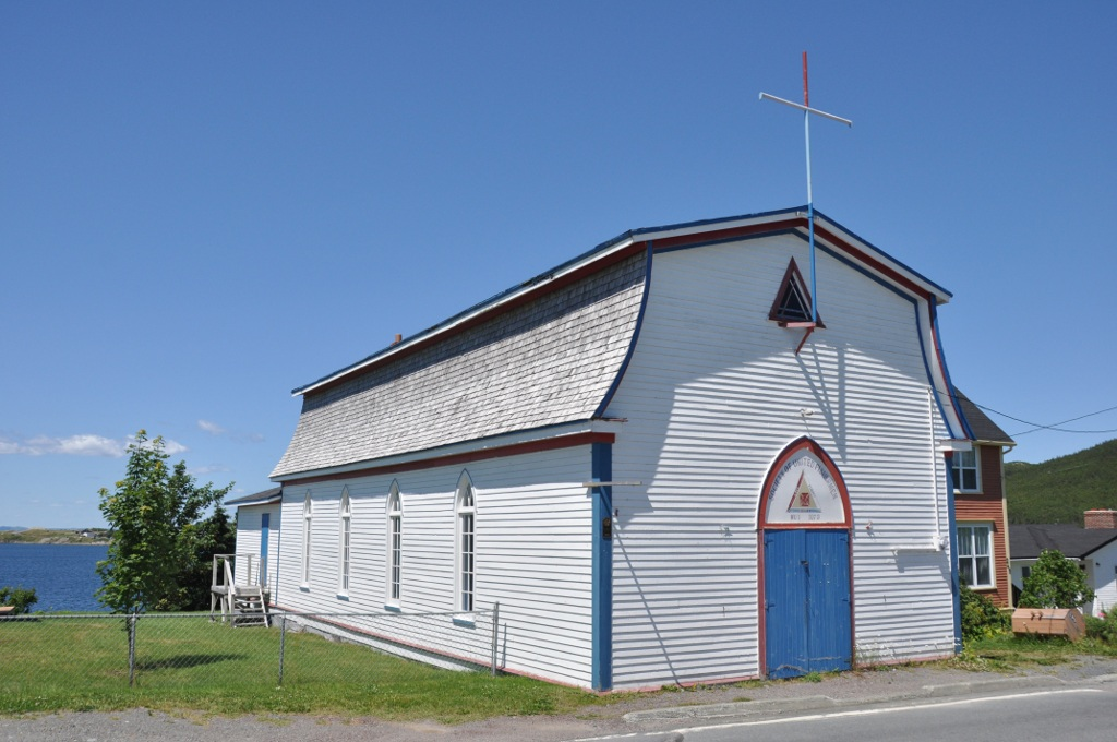 Society of United Fishermen Lodge SUF #1, Heart's Content, Newfoundland.